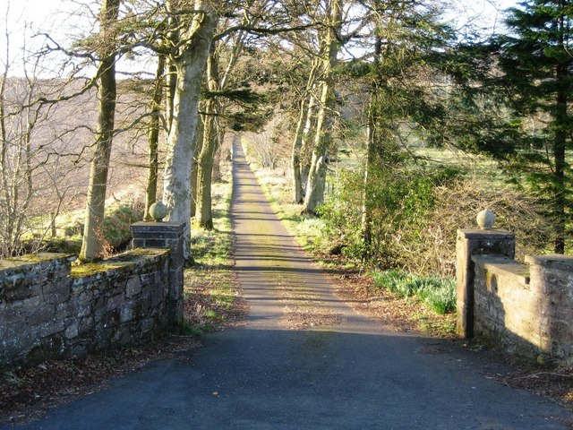 Ascreavie House Road Photograph taken looking up the drive to Ascreavie House. This was onetime home to plant hunter Major George Sheriff. His last expedition, with colleague Frank Ludlow, was to Bhutan in 1949 and yielded a total of 5,000 species.